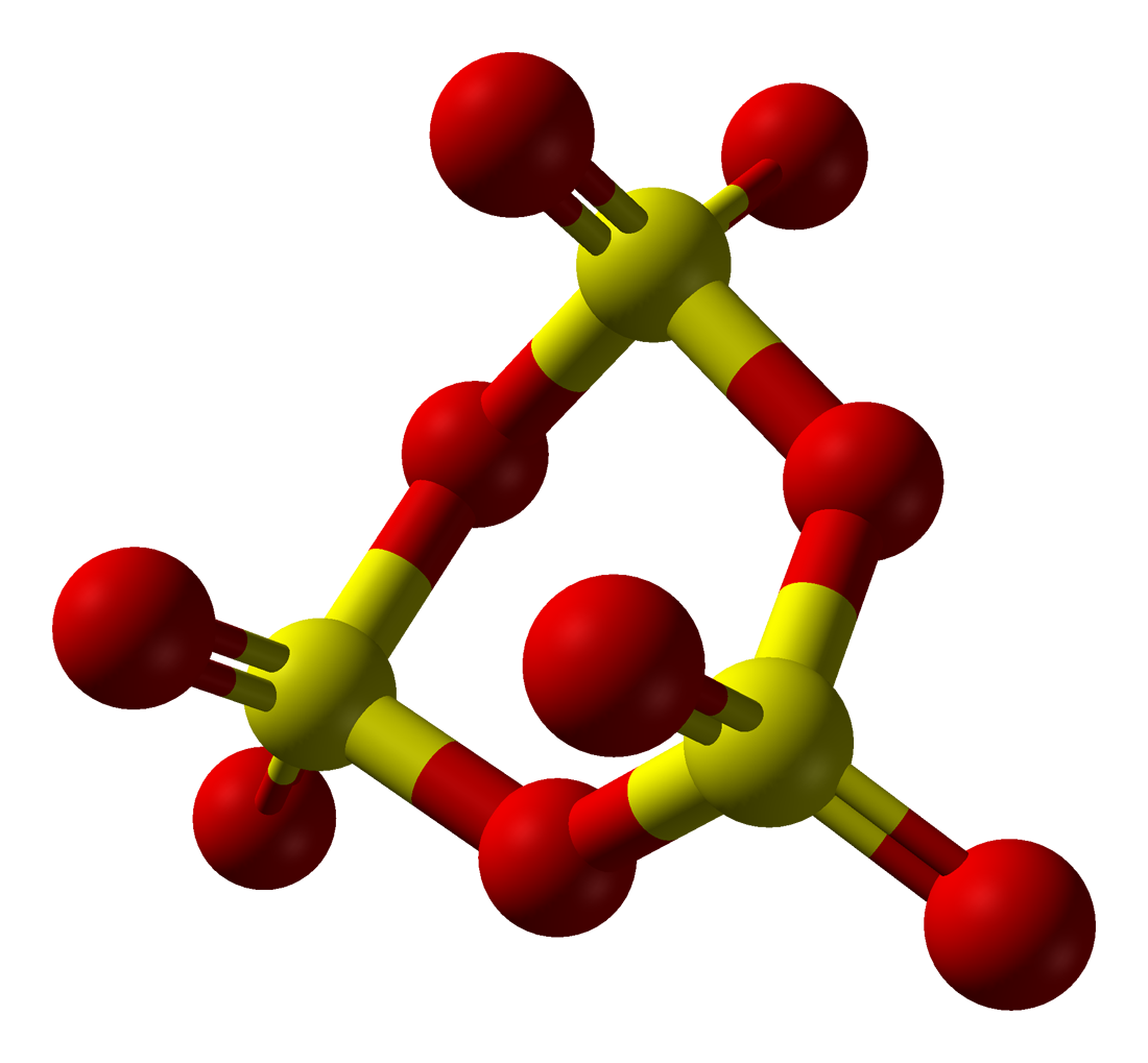 Ball-and-stick model of the sulfur trioxide trimer, (SO3)3, i.e. S3O9, from the crystal structure. X-ray crystallographic data from Acta Cryst. (1967) 22, 48-51. Model constructed in CrystalMaker 8.1. Image generated in Accelrys DS Visualizer.